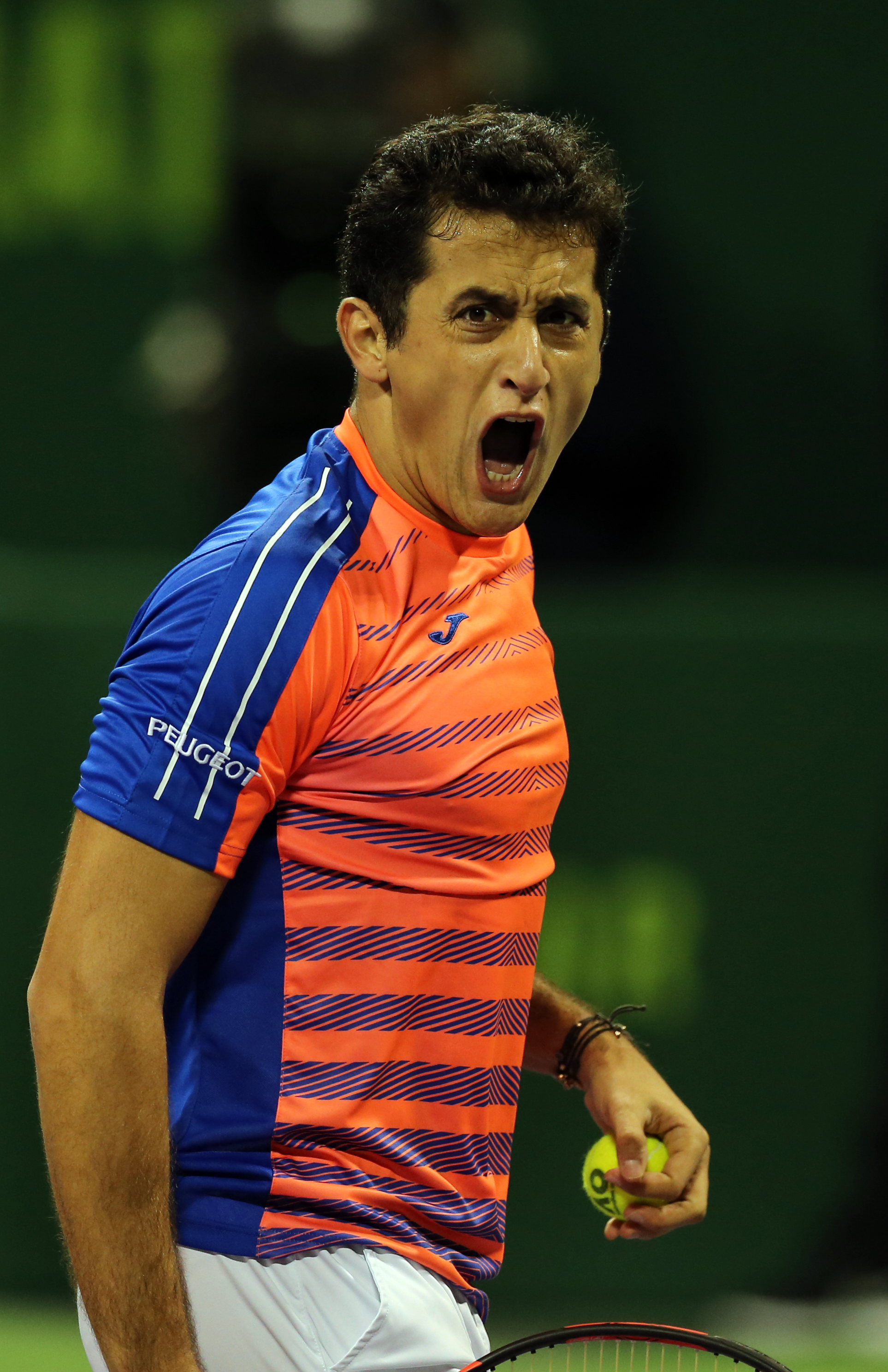 Nicolas Almagro of Spain reacts during the Qatar Exxonmobil Open 2017. Photo/Vinod Divakaran, DSP